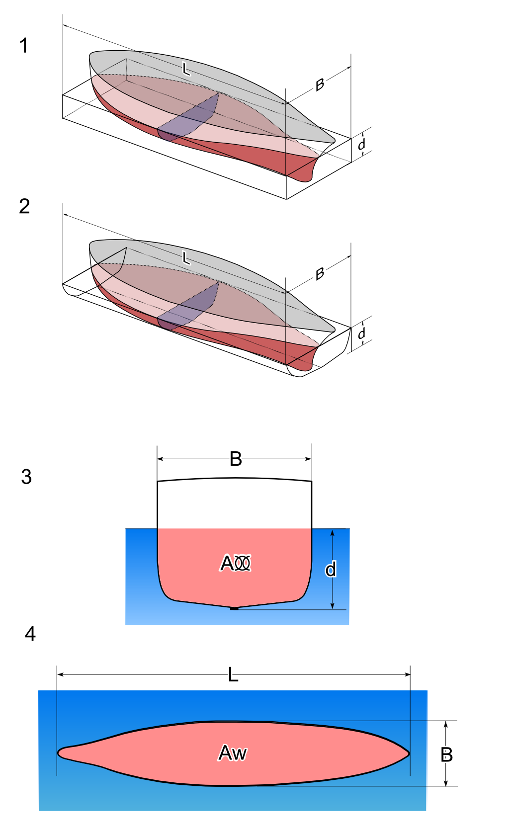 Ship Proportion coefficients (4_scales) 1.方形肥痩係数 2.柱状肥痩係数 3.前方より見た図 4.上方より見た図